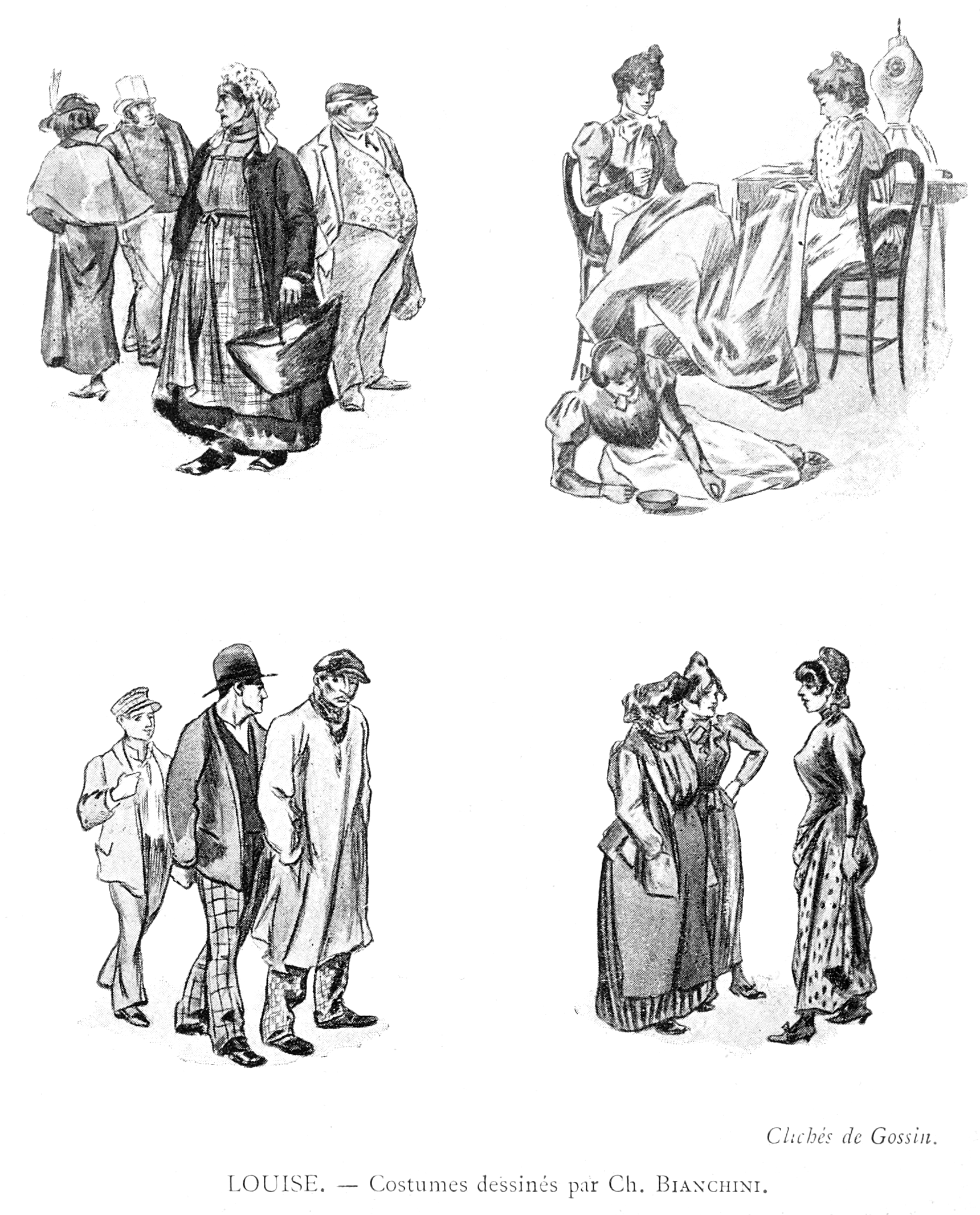 Gustave Charpentier - Louise - Costumes dessinés par Ch. Bianchini - Clichés de Gossin - 2